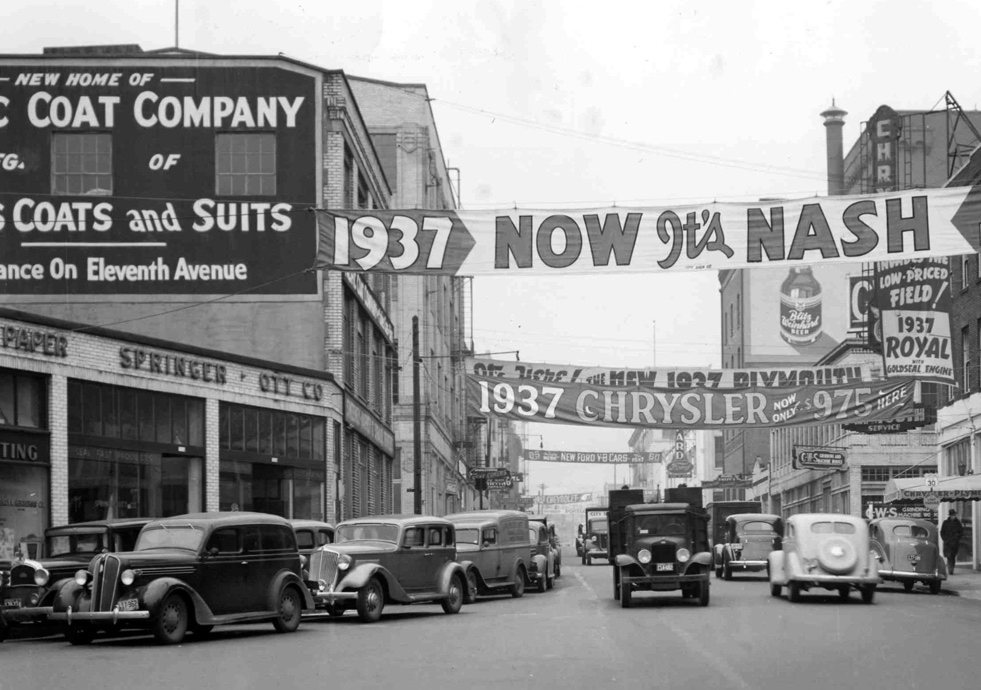 Portland's Burnside in 1937 is filled with advertisements for new cars. This is looking west on West Burnside Street from 10th Avenue, as SW Oak Street veers off at left